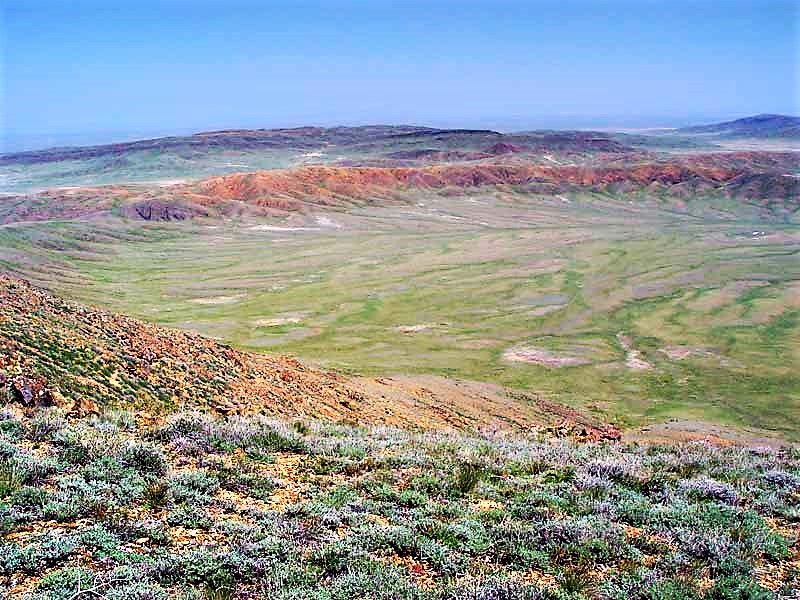 Edmon2004, own work